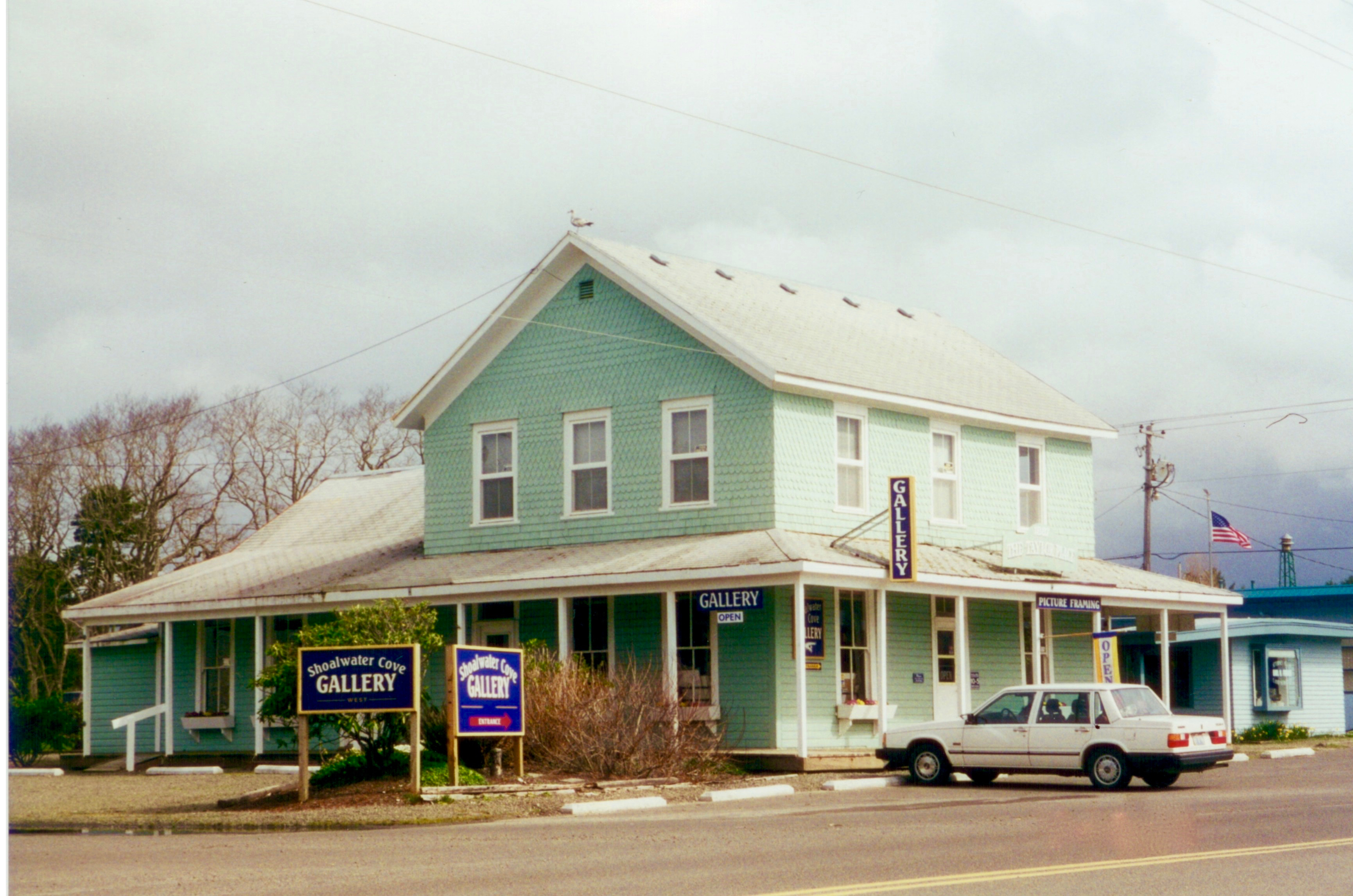 Taylor Hotel Building, Ocean Park, Washington, United States.